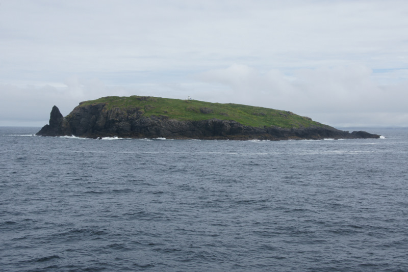 Gruney, Ramna Stacks